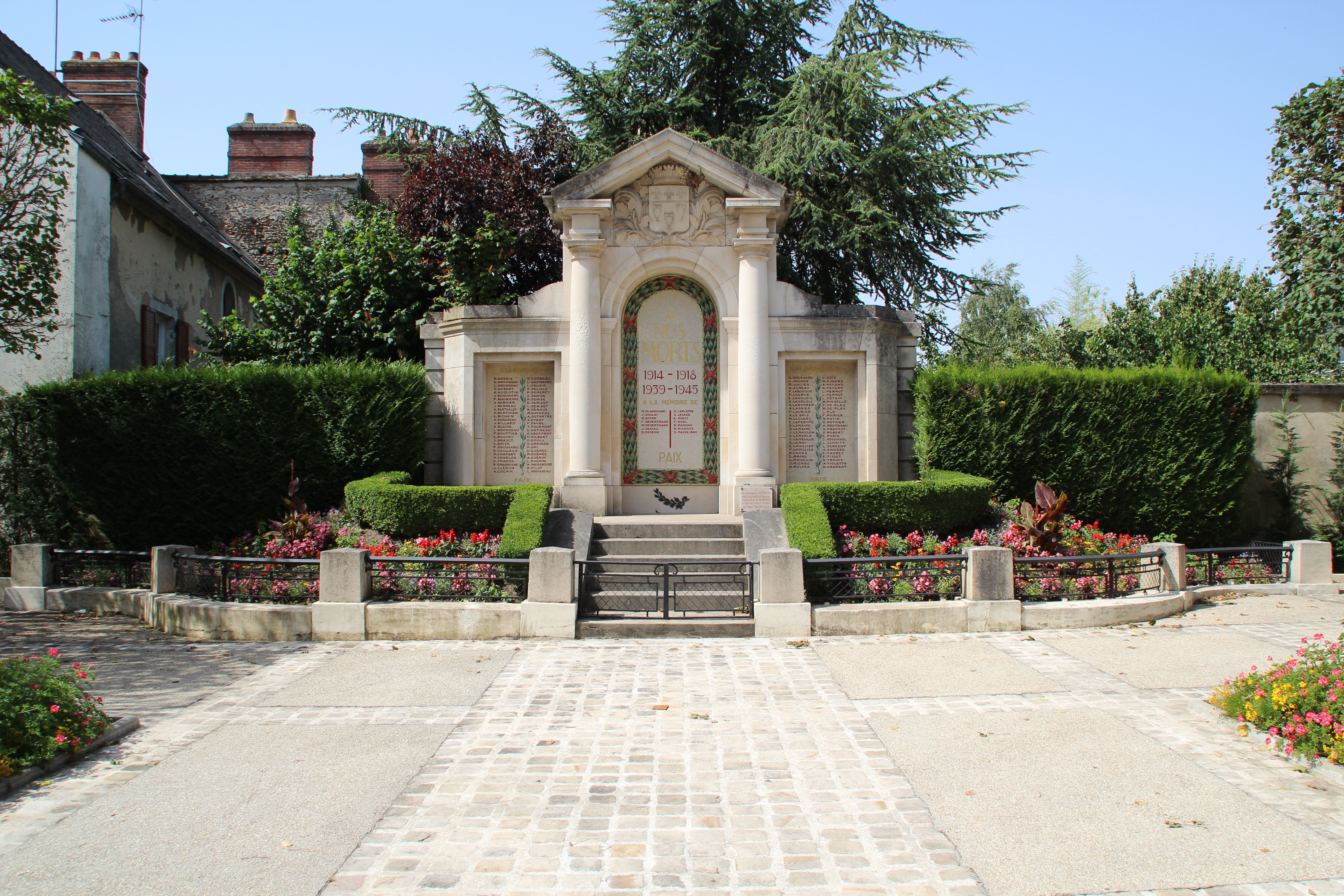 War memorial of Dourdan, France. Object location48° 31′ 50.87″ N, 2° 00′ 36.86″ E This image was uploaded as part of L'Été des villes 2015.